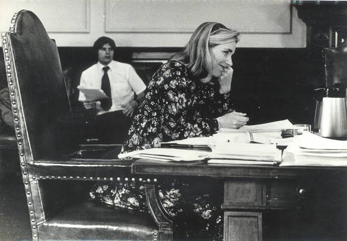 Dudley Dudley at New Hampshire Governor's Council Meeting.